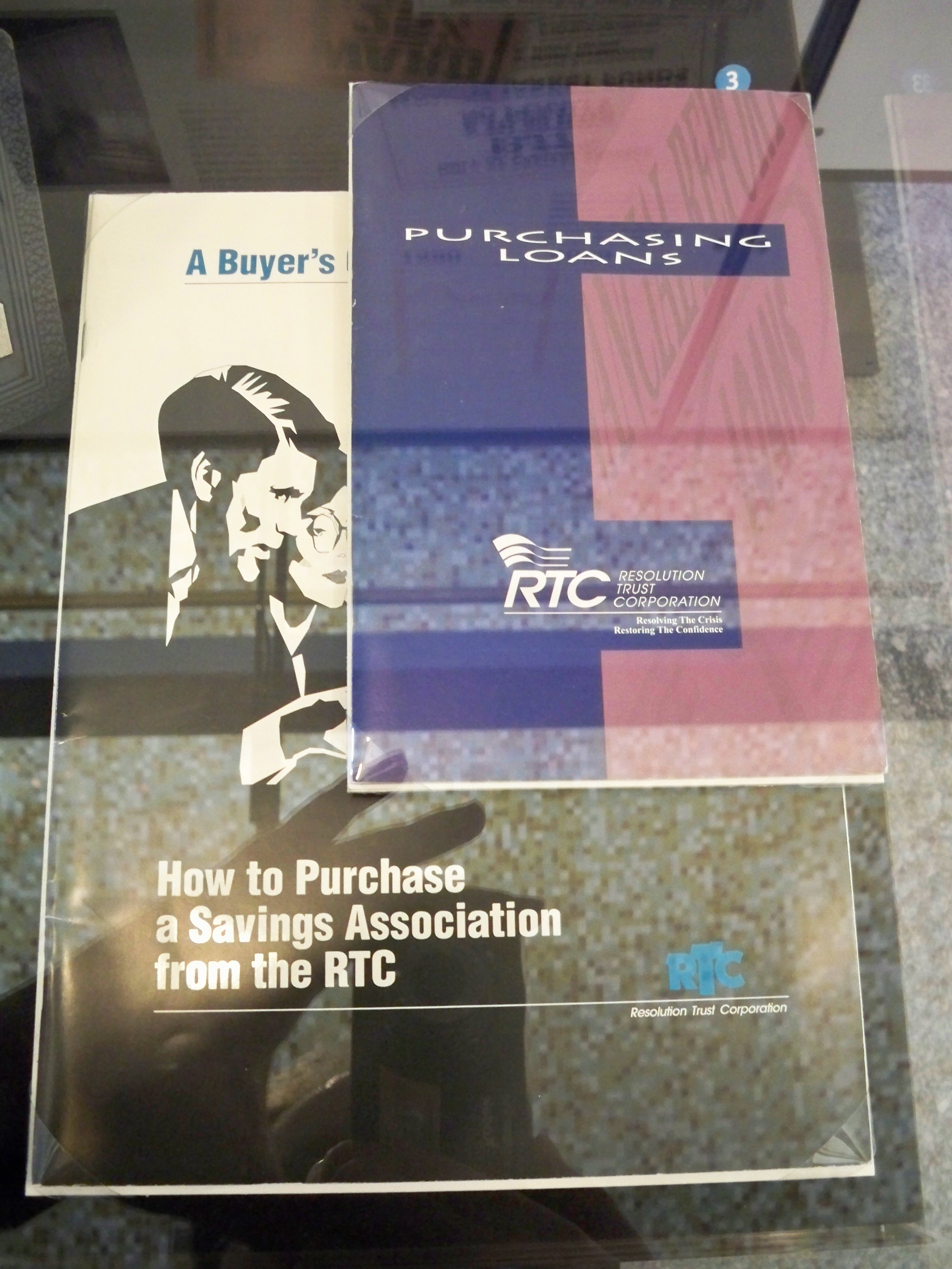 Resolution Trust Corporation literature in the FDIC history exhibit in the headquarters building in Washington, DC.